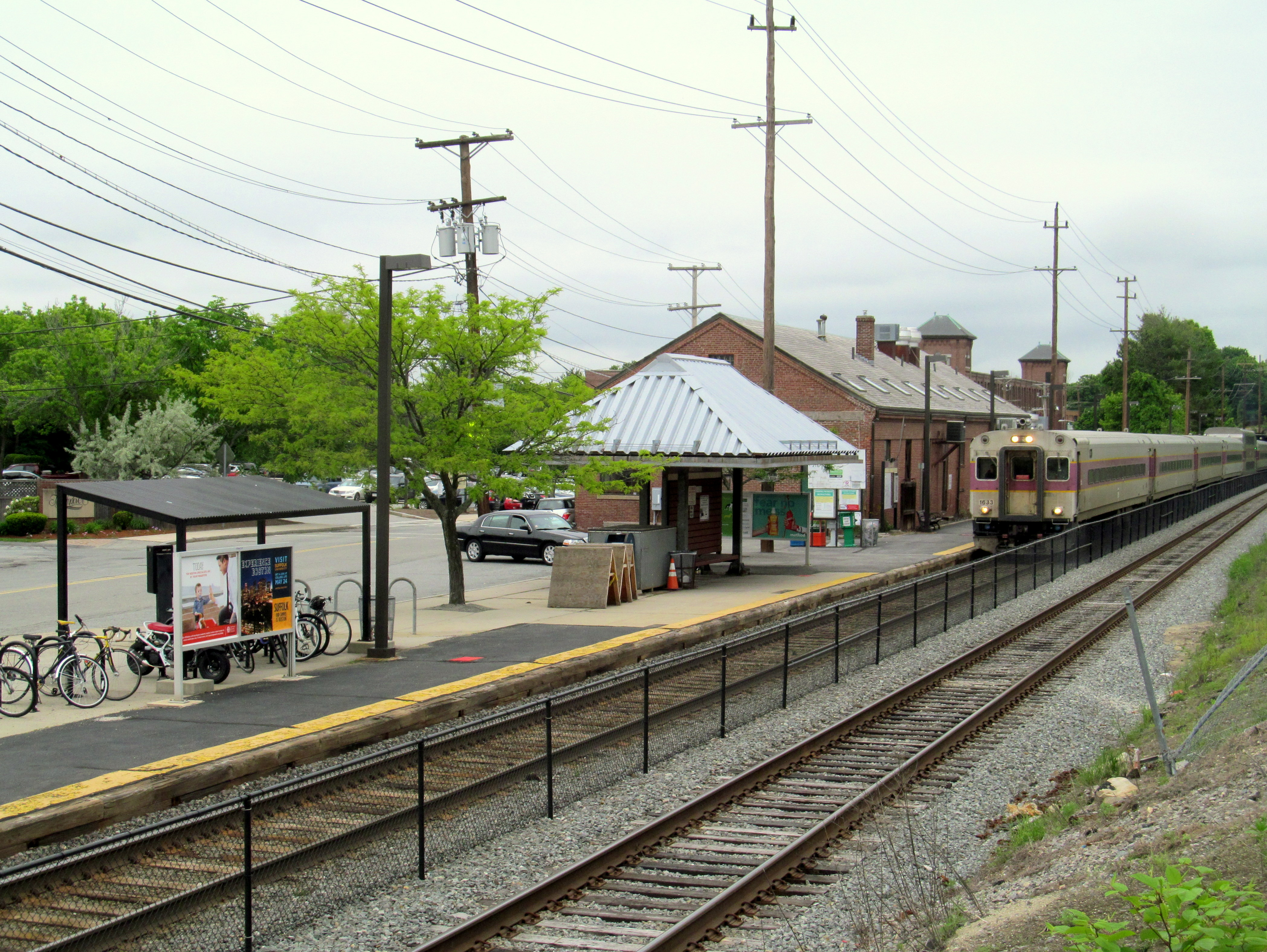 An inbound MBTA train arrives at Andover station in May 2017